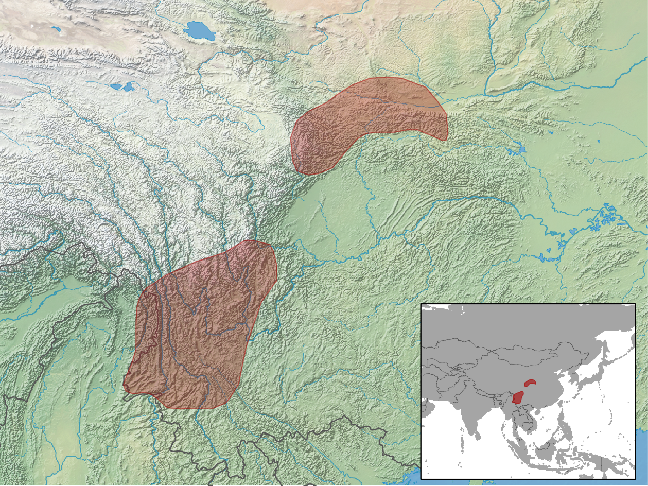 geographic distribution of Vernaya fulva